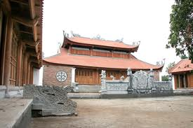 đền thờ song thân